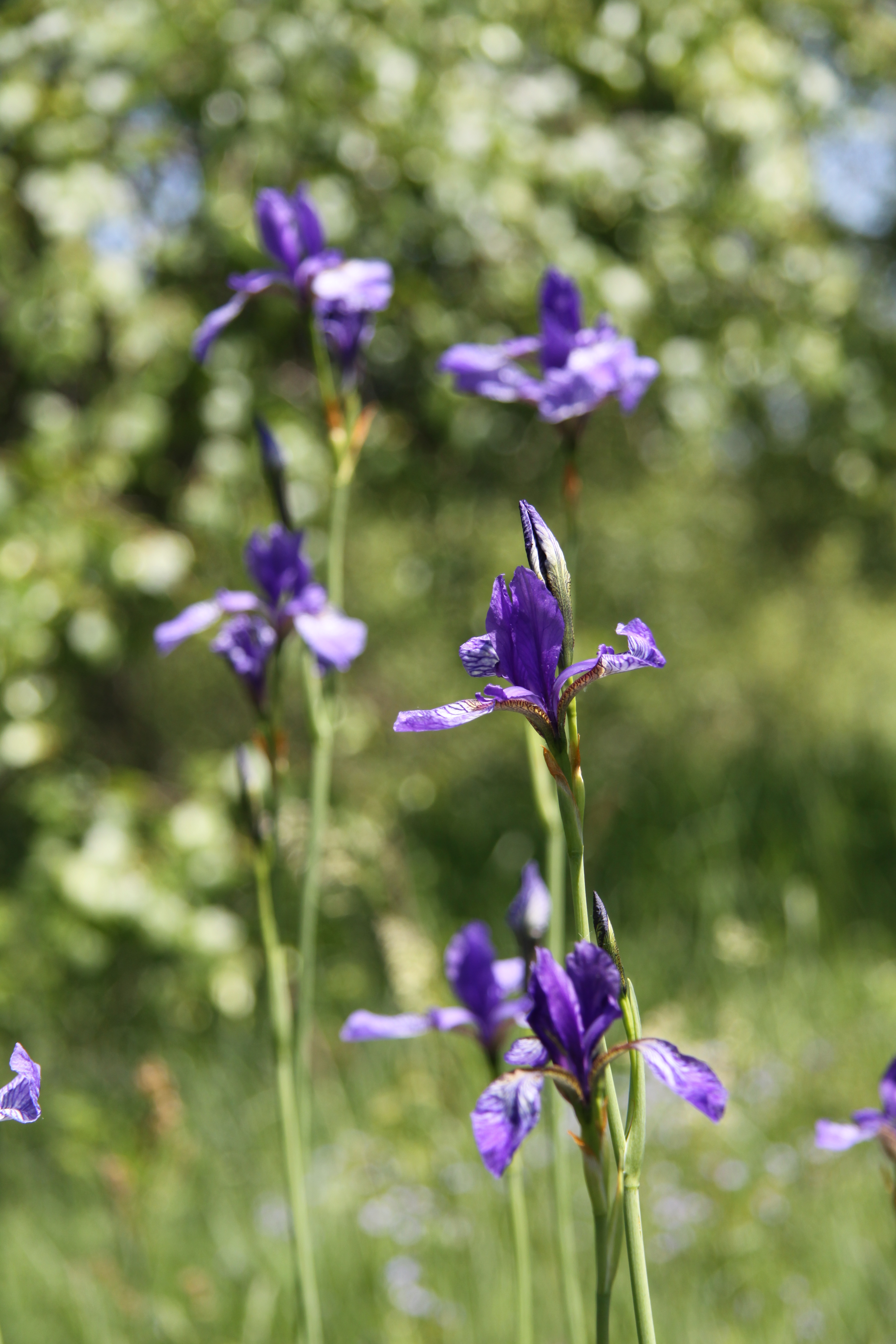 Iris sibirica in natural monument Novoveská draha near Nová ves village near Nepomuk, Plzeň-jih District, Czech Republic - Google Maps - Google Earth